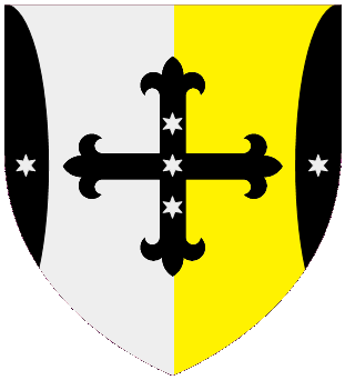 Shield of arms of Sir John Rigby